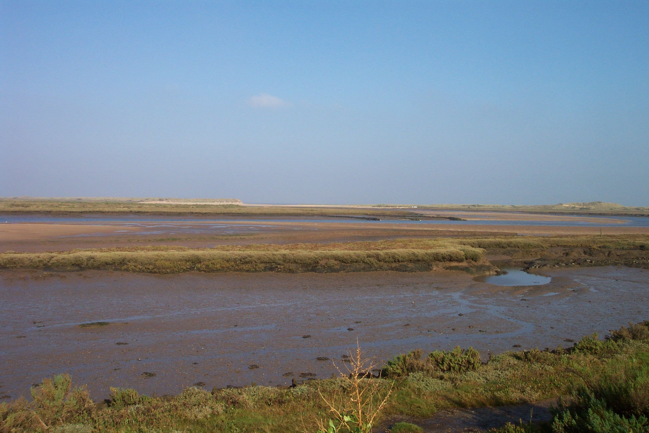 The harbour mouth, creek and saltmarshes at Burnham Overy Staithe, as seen from the footpath from Staithe to beach. For more information see the Wikipedia article Burnham Overy.